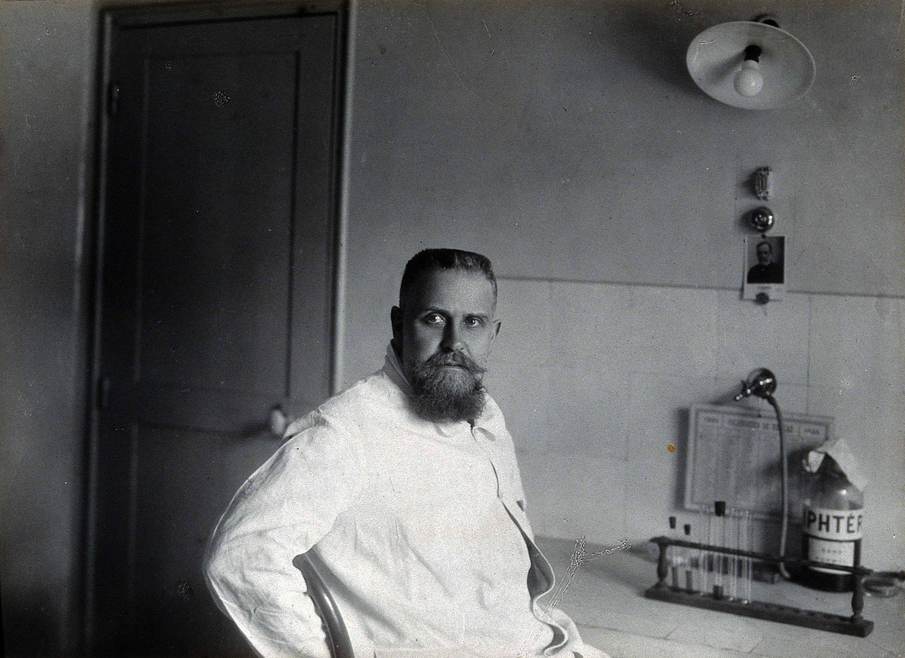 Gaston Ramon. Photograph. Iconographic Collections Keywords: portrait photographs